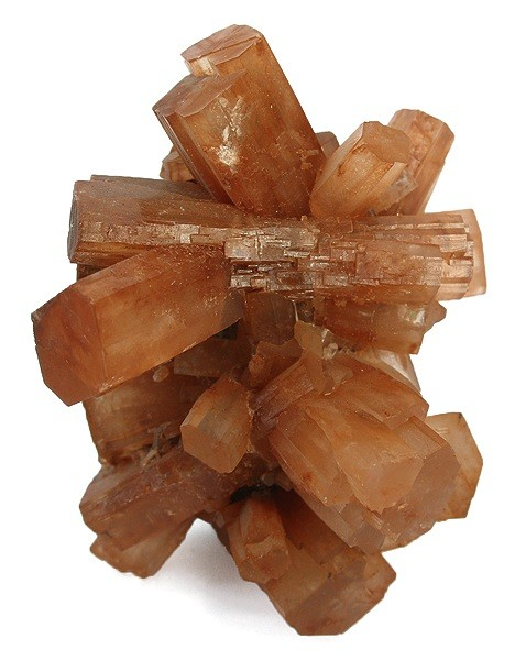 Aragonite Locality: Tazouta Mine, Sefrou, Sefrou Province, Fès-Boulemane Region, Morocco (Locality at ) Size: 6.0 x 5.1 x 4.3 cm. This is an intergrown cluster of lustrous and translucent, ocher-colored, twinned crystals of aragonite. The crystals reach 4.0 cm in length and a few of them are also doubly terminated. Jack purchased this from longtime friend and dealer in California, A.L. McGuinness, in the 1980s. Ex. Jack Halpern Collection.